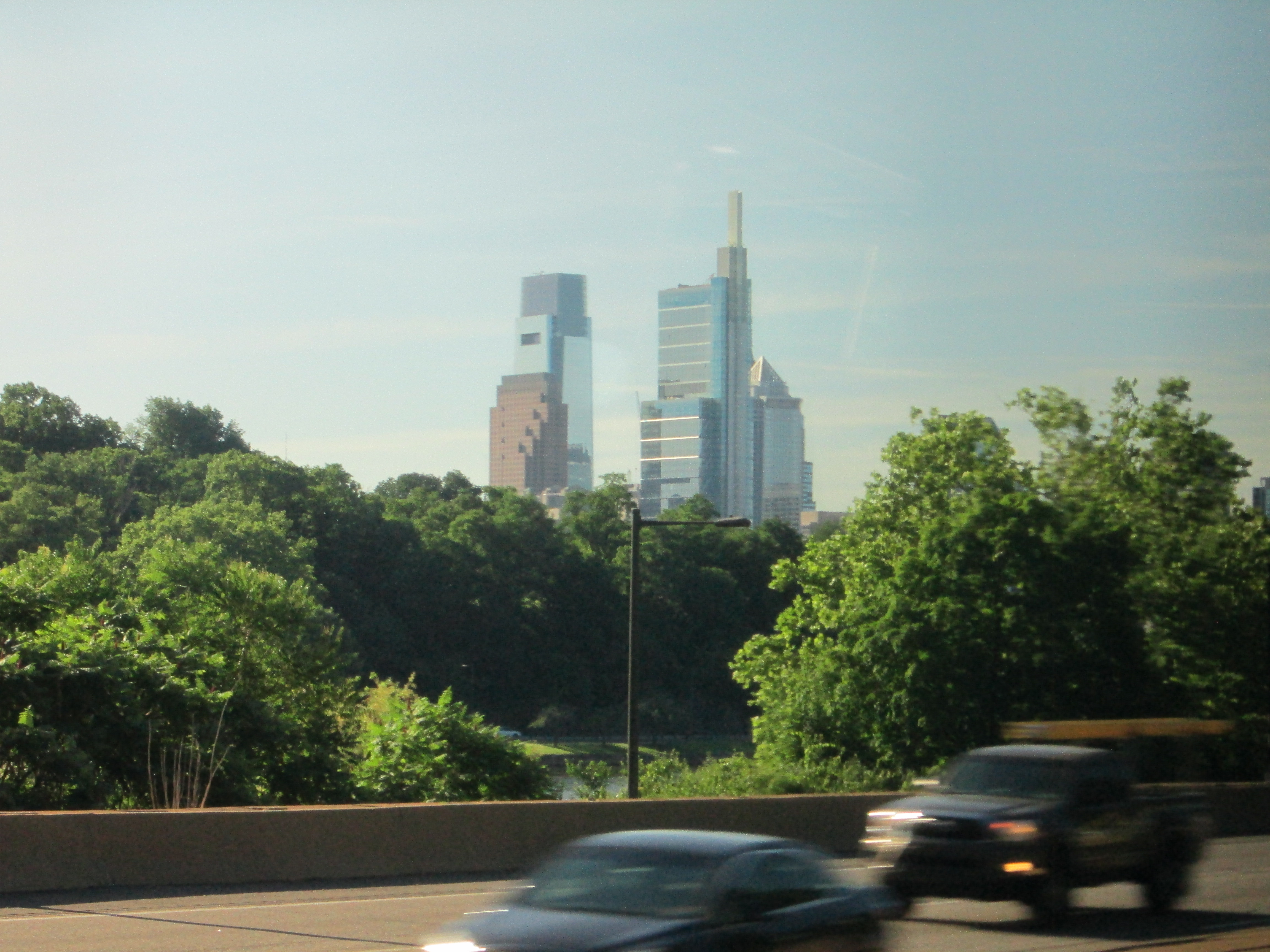 Picture of the Comcast Centers in Philadelphia from the road